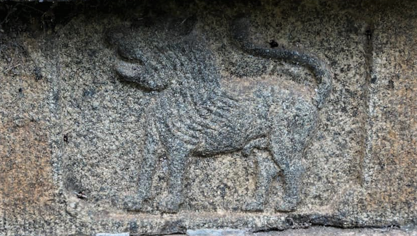 Symbol of Thekkumkur Dynasty